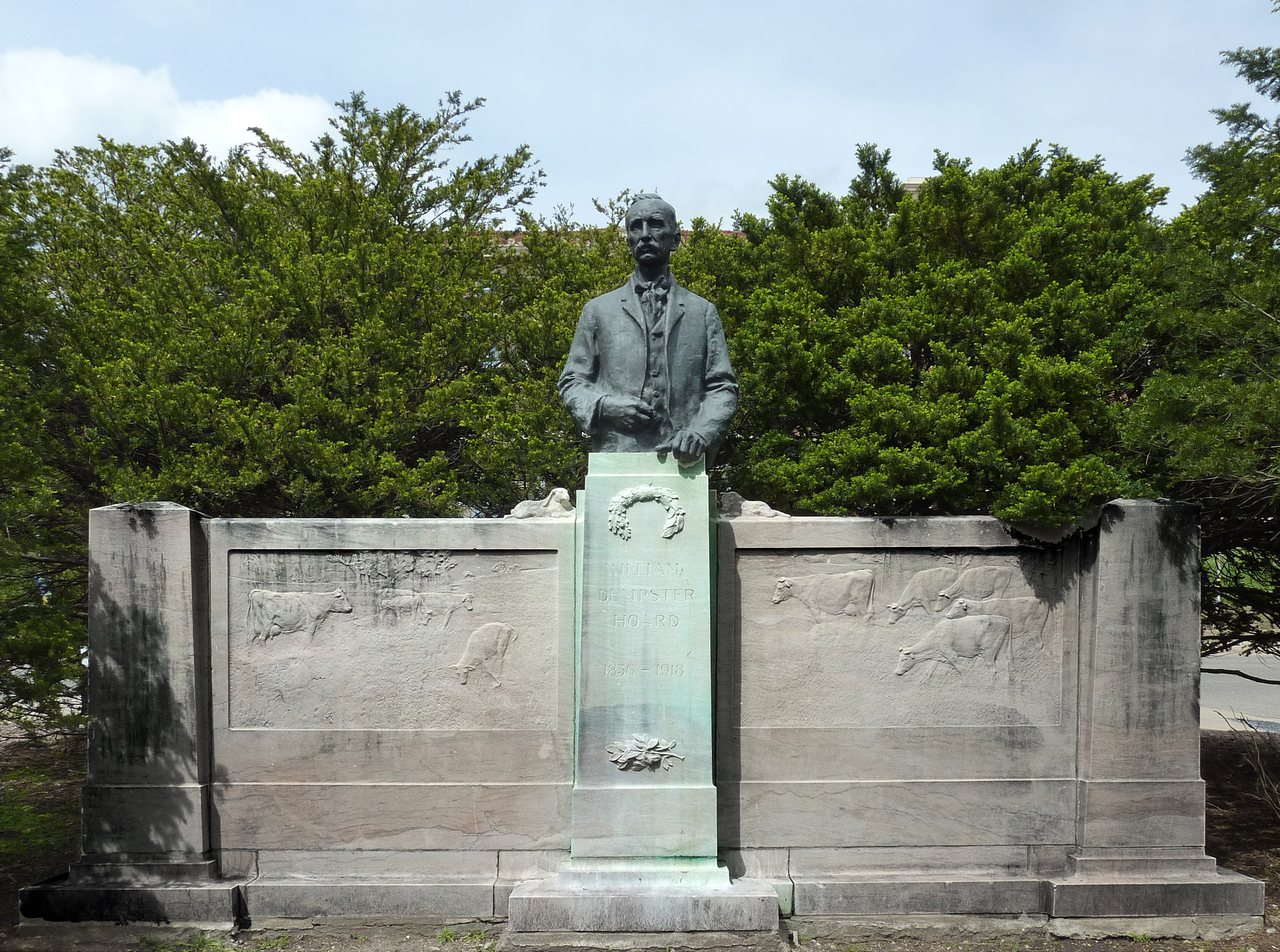 Monument to William Dempster Hoard by Gutzon Borglum, erected 1922 at the north end of the Henry Mall, University of Wisconsin-Madison.